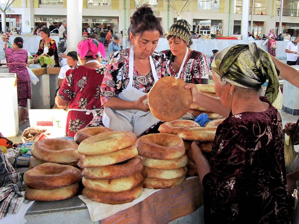 Central Asian bread for sale in the Siob Bazaar at Samarkand, Uzbekistan.